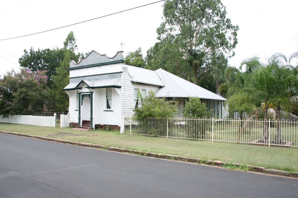 Bank of New South Wales premises and attached residence (former), from NE (2009)